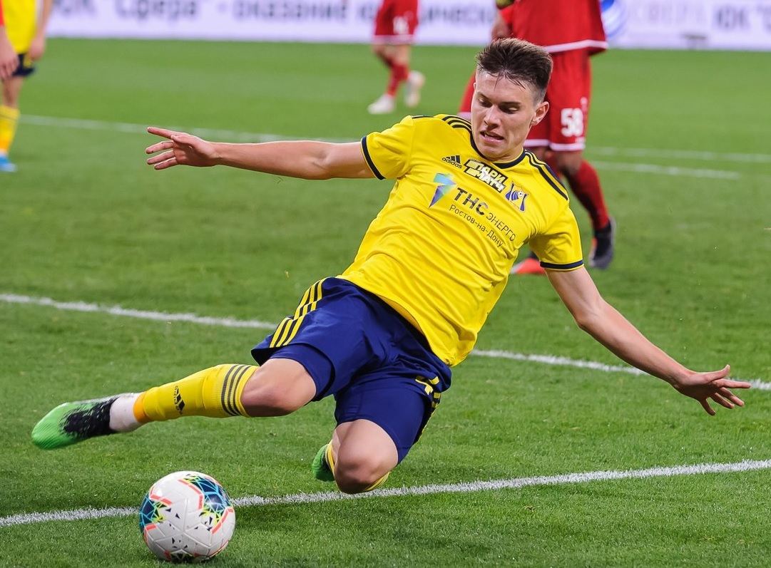 Aleksandr Dolgov with FC Rostov in a game against FC Tambov.